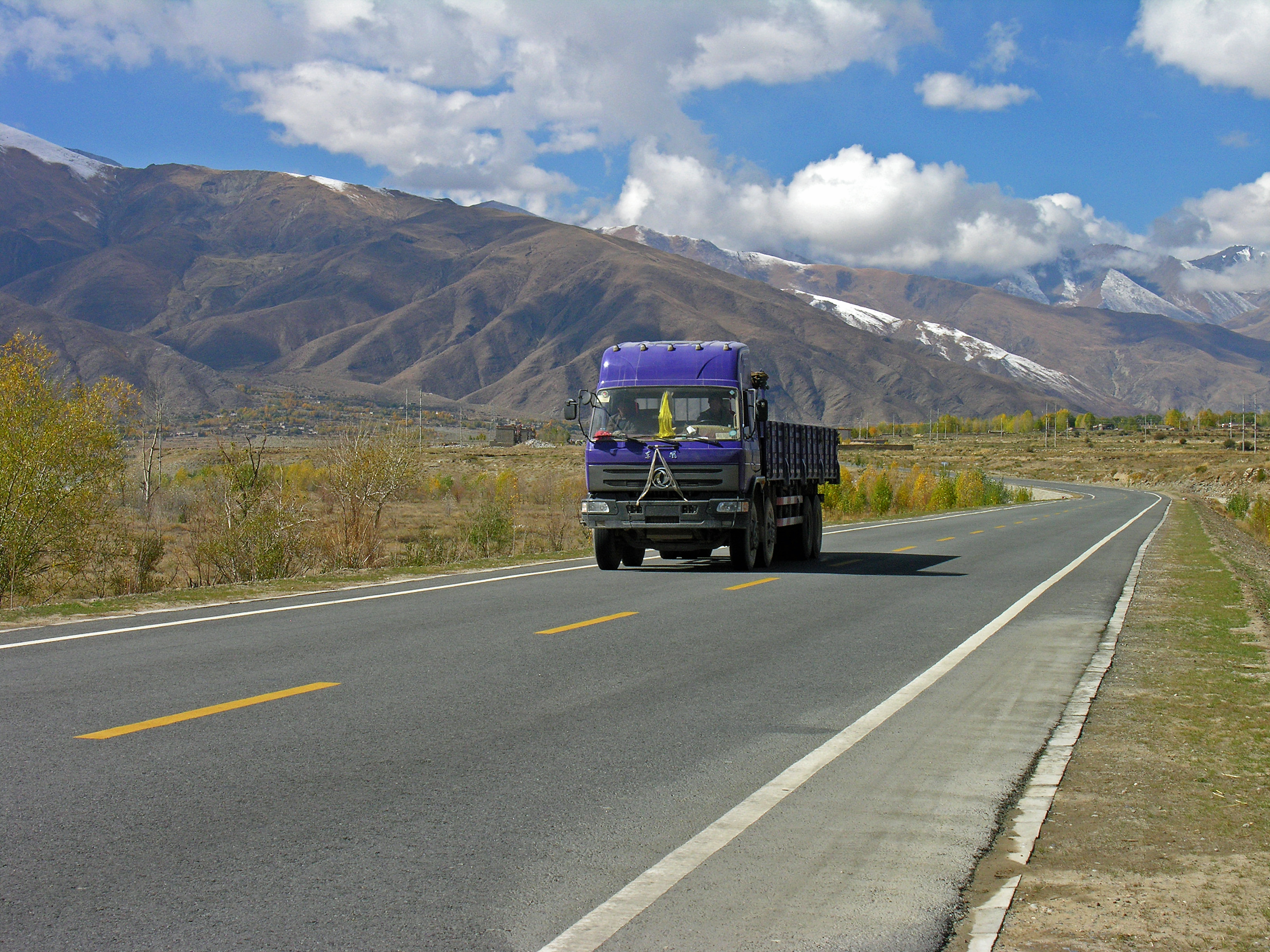 If the washroom at Yundrok Yumtso Lake was not up to your standards this is the other choice, do it beside the roadway. The roads to my surprise were very good in Tibet for the most part. Highway to Gyangtse, Tibet.